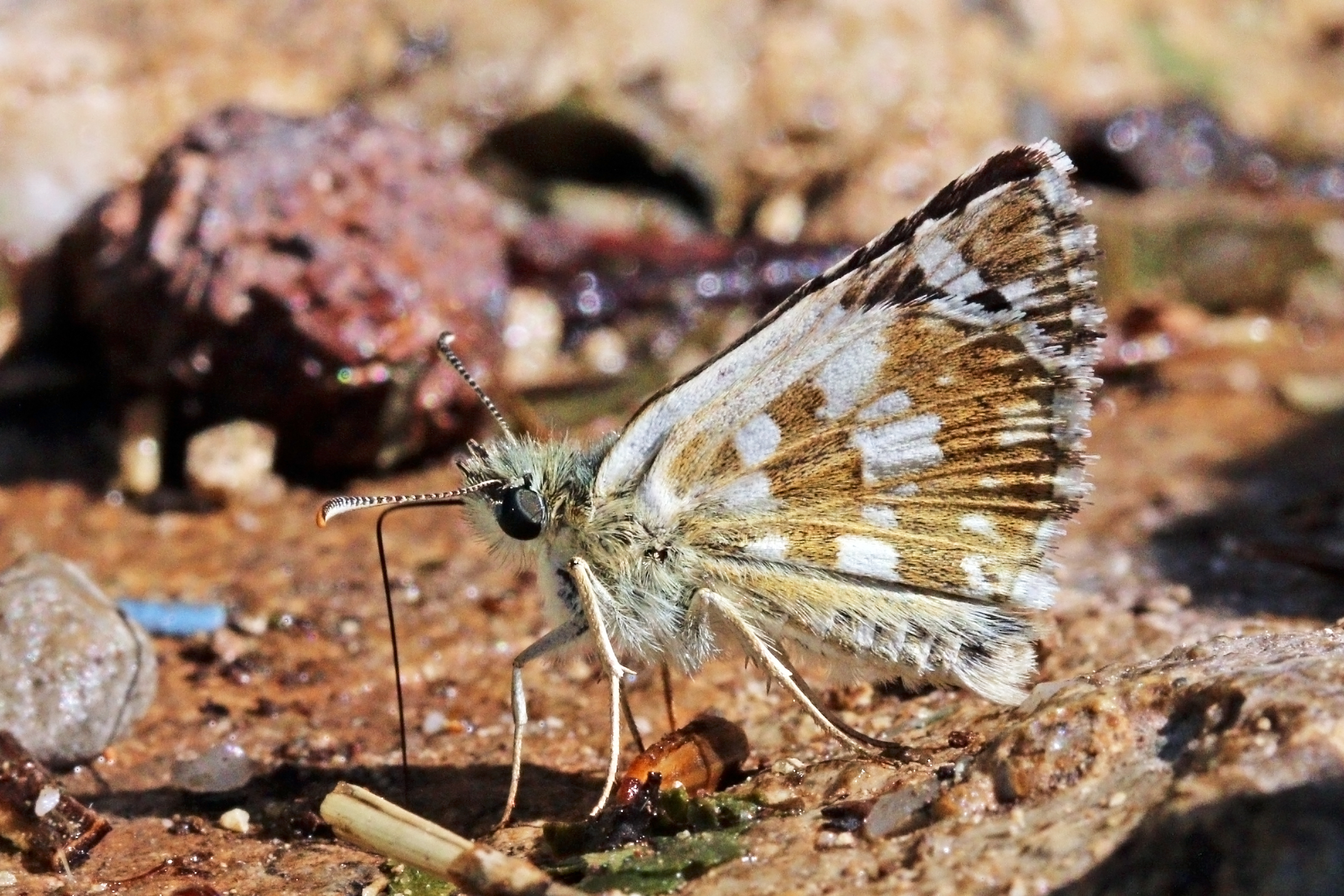 Sandy grizzled skipper (Pyrgus cinarae), Galichica National Park, Republic of Macedonia